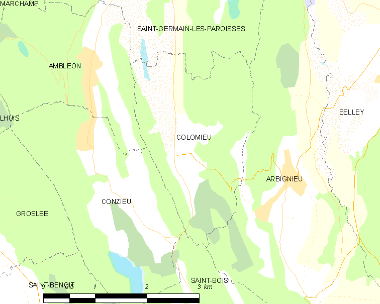 Map of French commune: Colomieu Map commune FR insee code 01110.png